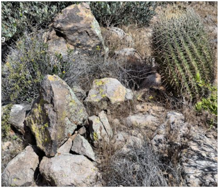 Waltz Felsenspitze from the Latin Heart Site